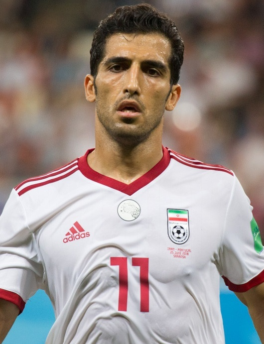 Iran-Portugal match, 2018 FIFA World Cup Group B